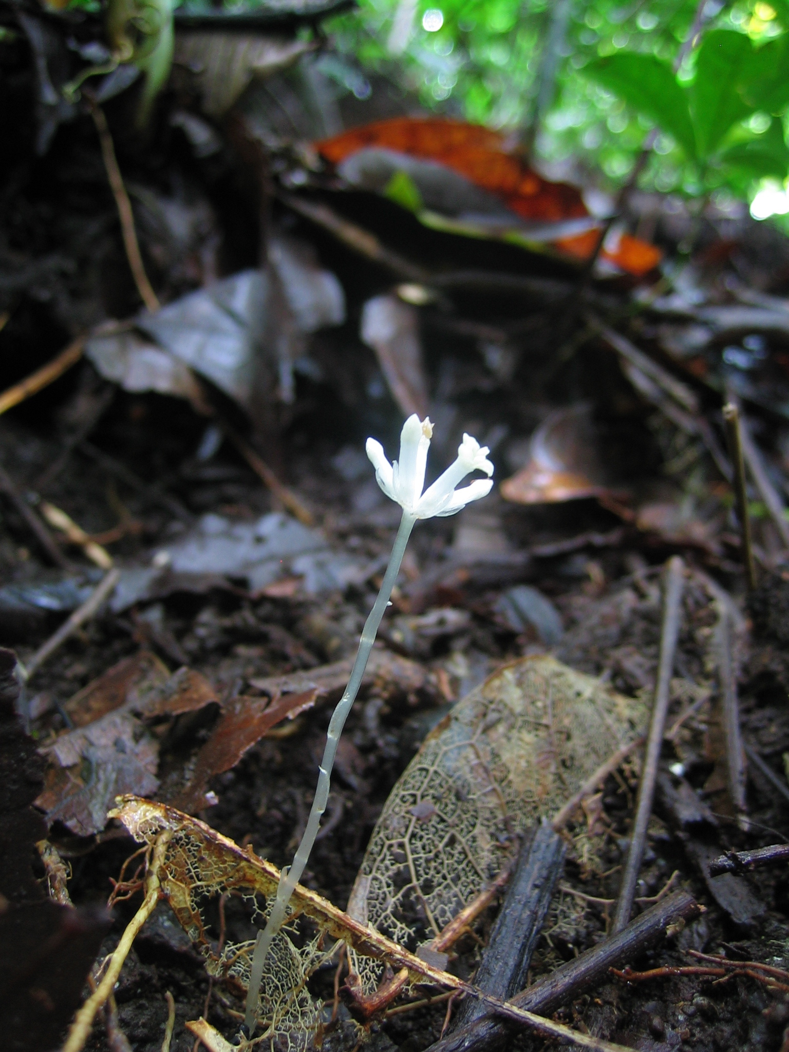 Burmannia congesta, Mount Kupe, Cameroon. Taken on 04/09/2006